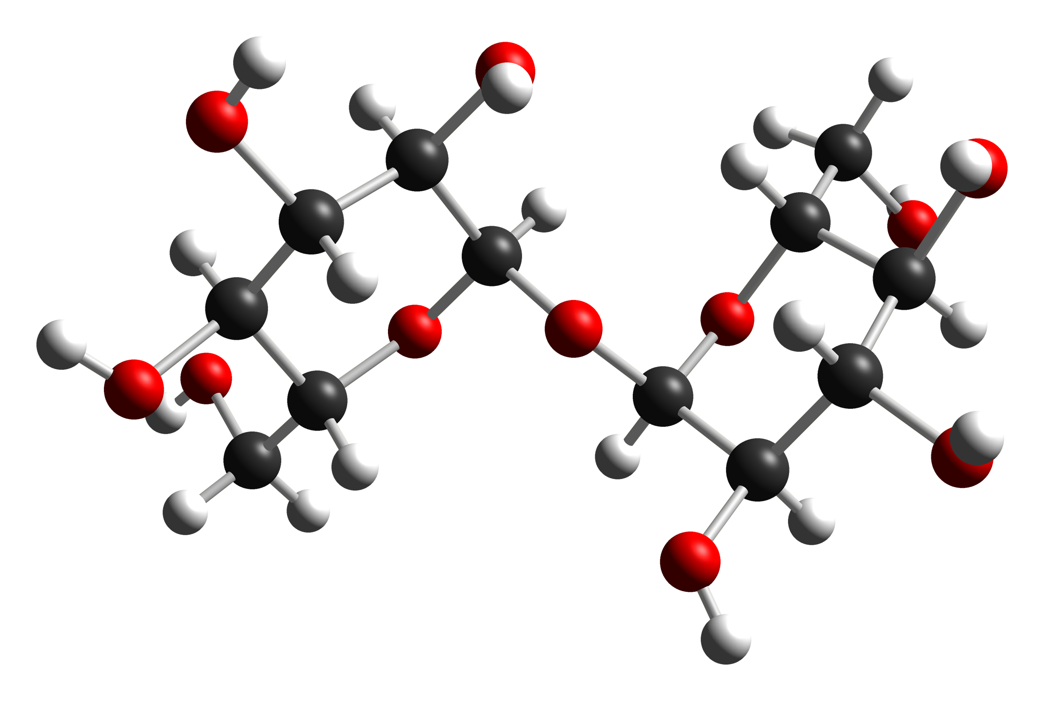 Ball-and-stick model of the trehalose molecule, as found in the crystal structure. Structure from J. Phys. Chem. B (2008). 112, 9105–9111. Image generated in CrystalMaker 8.2.